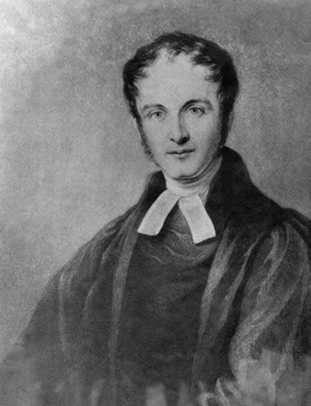 Henry Francis Lyte (1793-1845)